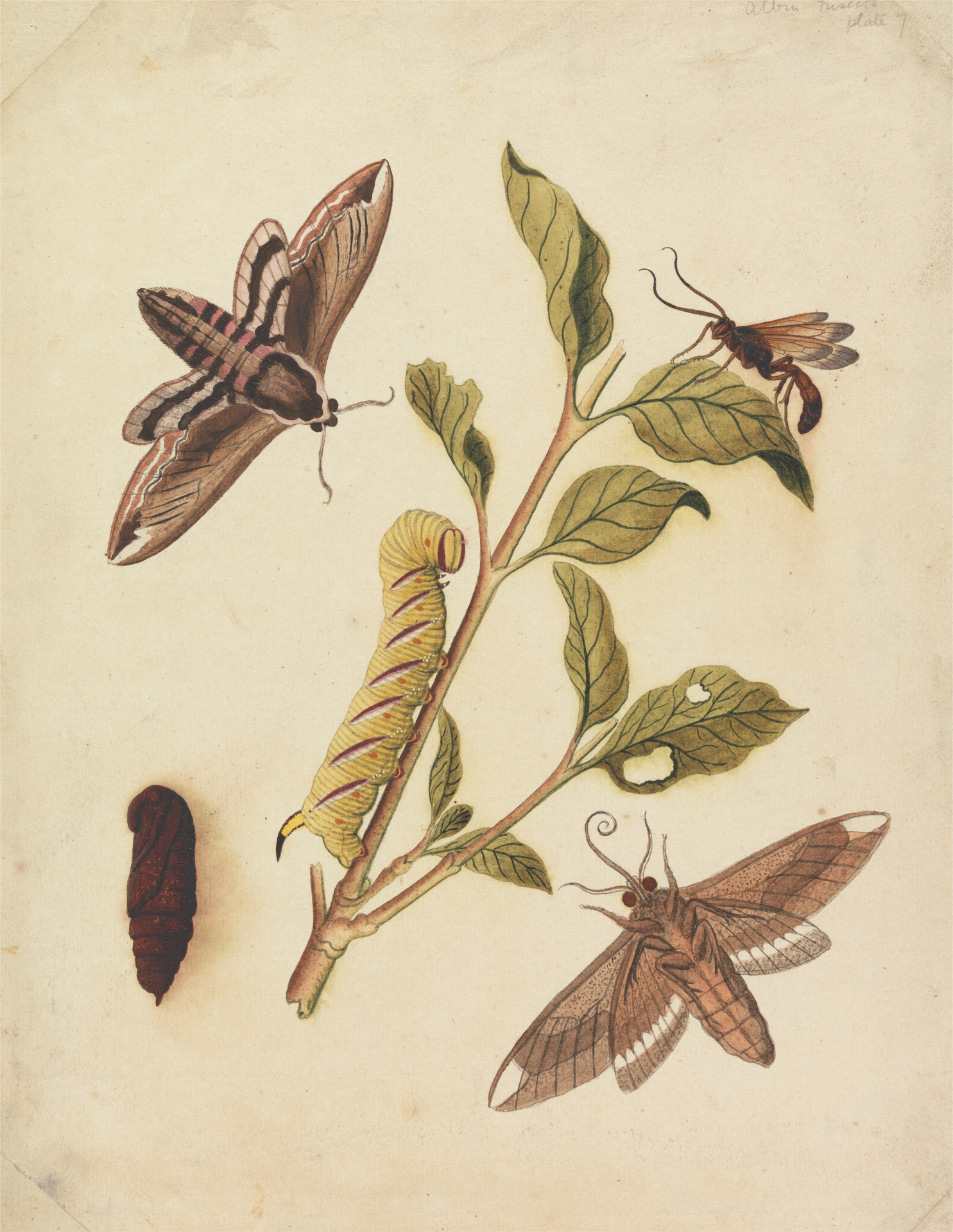 "Privet Hawk Moths and Callajoppa Exaltatoria," by Eleazar Albin, 1720. Watercolor, gouache, and graphite on cream laid paper. 10 5/8 inches × 8 1/4 inches (27 cm × 21 cm). Courtesy of the Paul Mellon Collection, Yale Center for British Art, Yale University, New Haven, Connecticut.